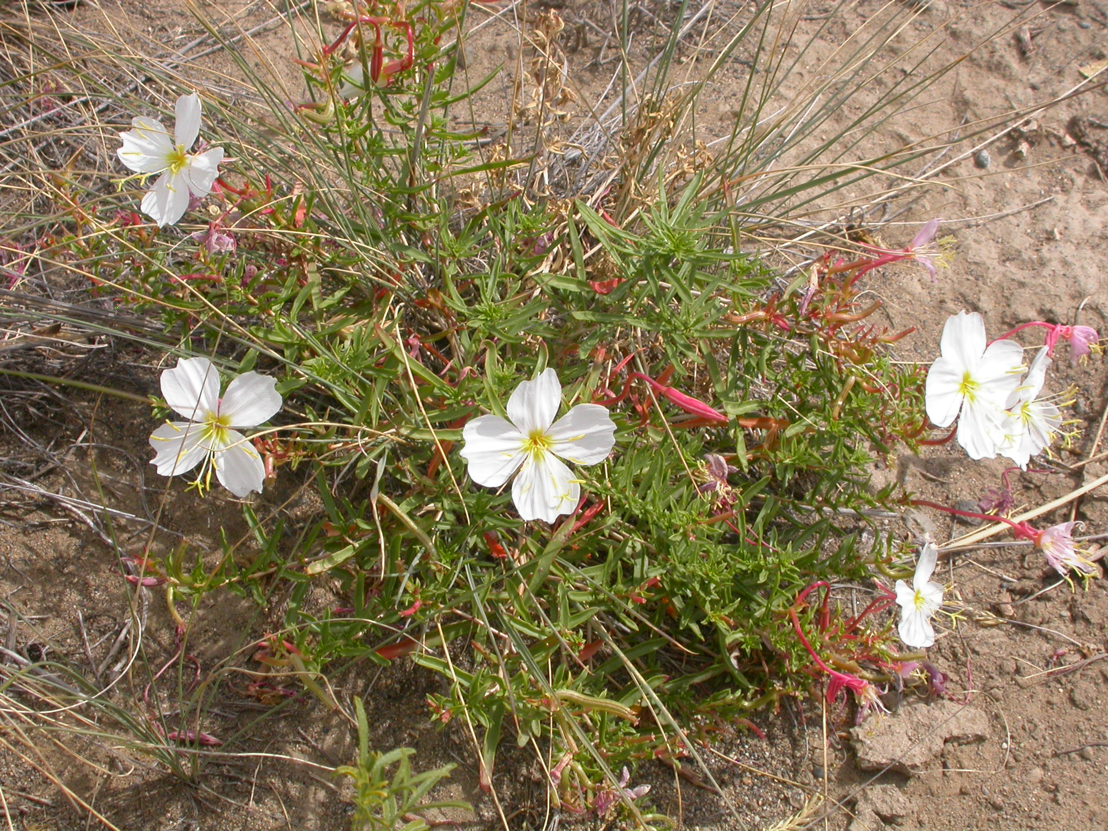 Common especially along side roads and other settings of compacted soils.